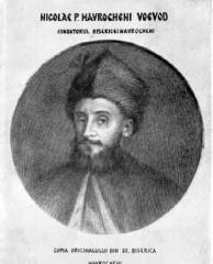 Nicolae Mavrogheni, Hospodar of Wallachia